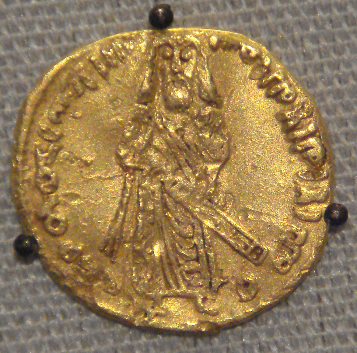 Umayyad Caliph 'Abd al-Malik: 'Caliphal Image solidus' or Standing Caliph solidus struck from 74-77 AH. Based on Byzantine numismatic traditions. Note that, contrary to popular belief, there are official representations of the human figure in the Islamic context. More over, the person portrayed is the caliph as per the Reverse field of A Mixed Arab-Sassanian And Arab-Byzantine Coin From The Time Of Caliph ʿAbd Al-Malik, 75 AH / 694-695 CE reads, "khalifa of God, Commander of the Faithful"